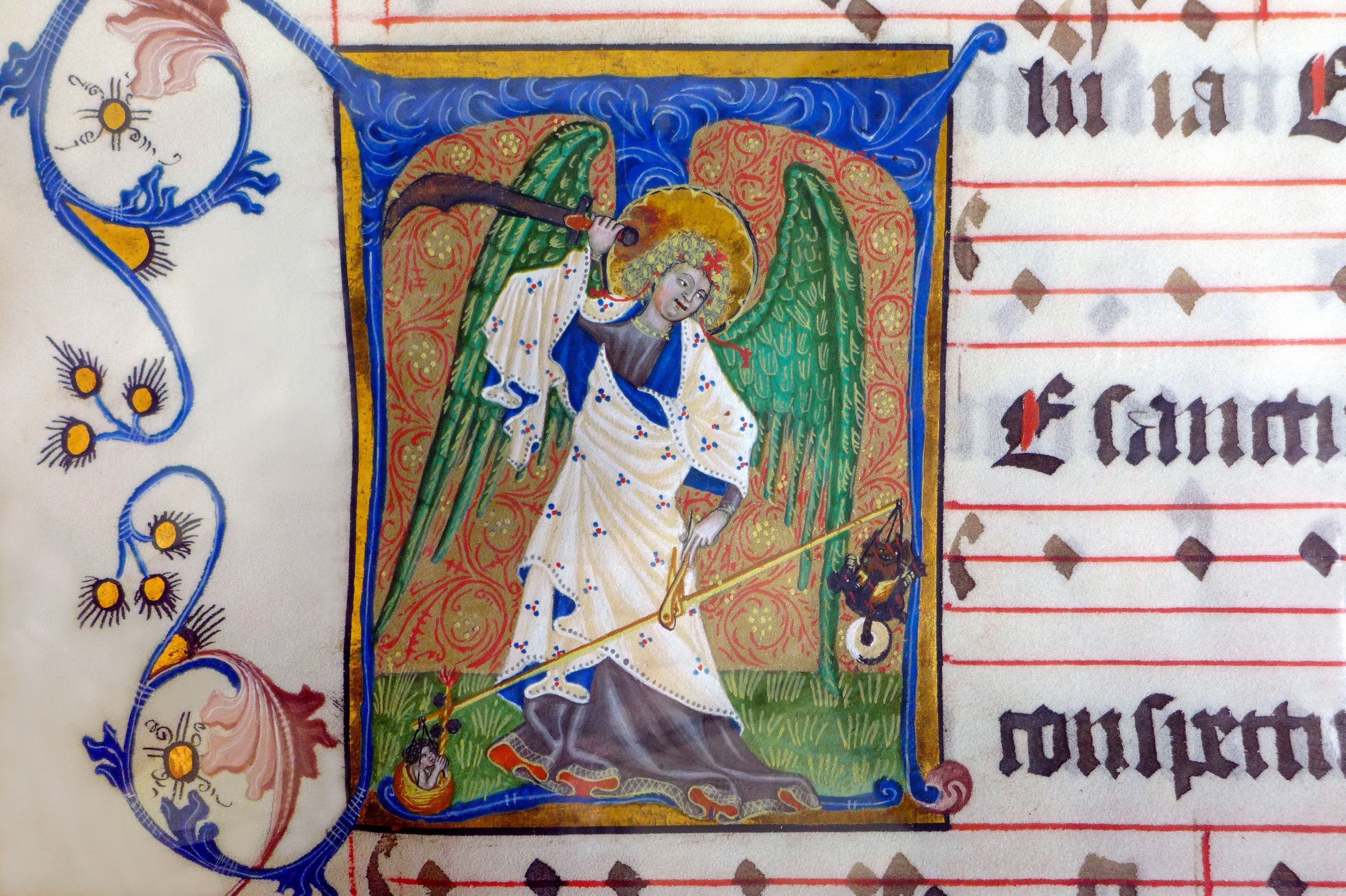 Antiphonale Cisterciense, miniature of Archangel Michael (15th century), Abbey Bibliotheca of Rein abbey, Rein, Styria, Austria